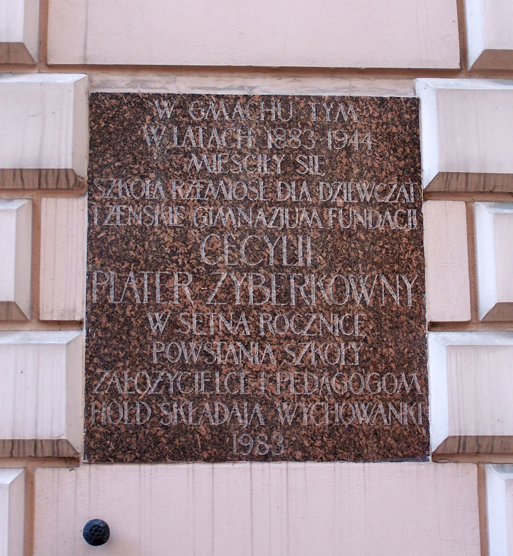 Memorial plaque at the building, where the girls' crafts school founded by Cecylia Plater-Zyberkówna, was located until 1944, in Warsaw, Poland